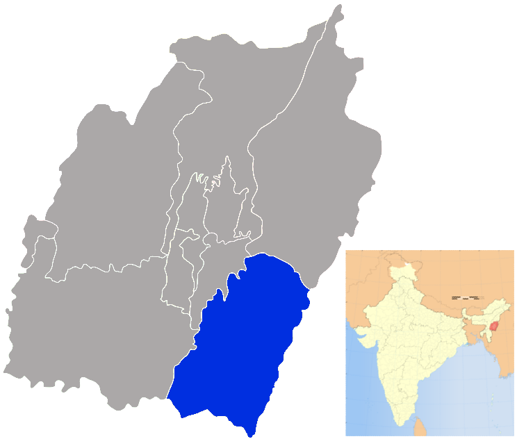 Chandel district in Manipur